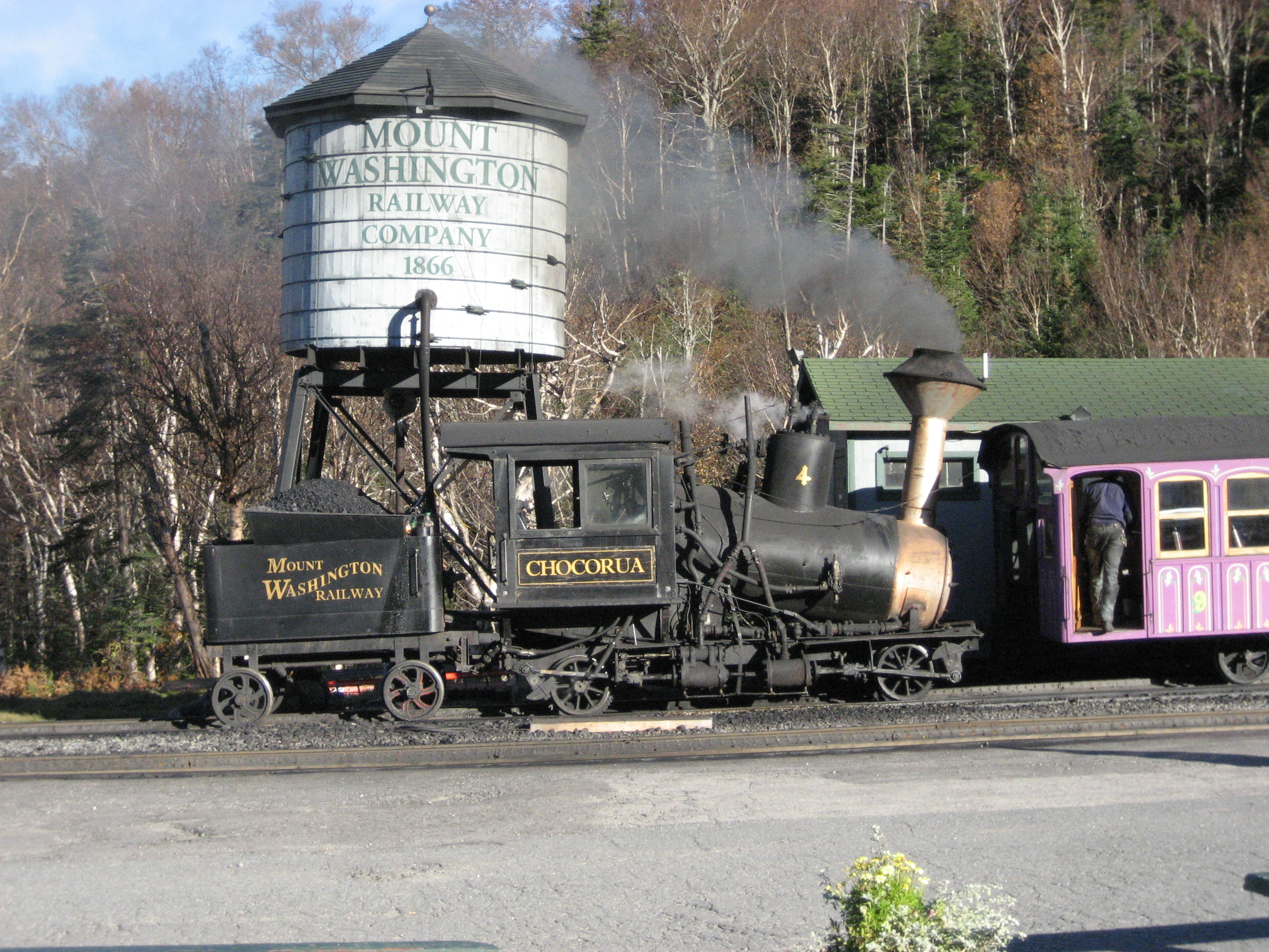 Locomotive Chocorua of the Mount Washington Cog Railway Author: Dan Crow Date: October 9th. 2006